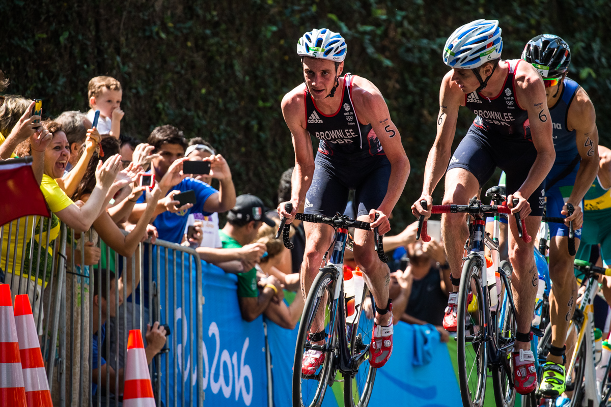 Alistair (5) et Jonathan (6) Brownlee au Jeux olympiques de Rio 2016